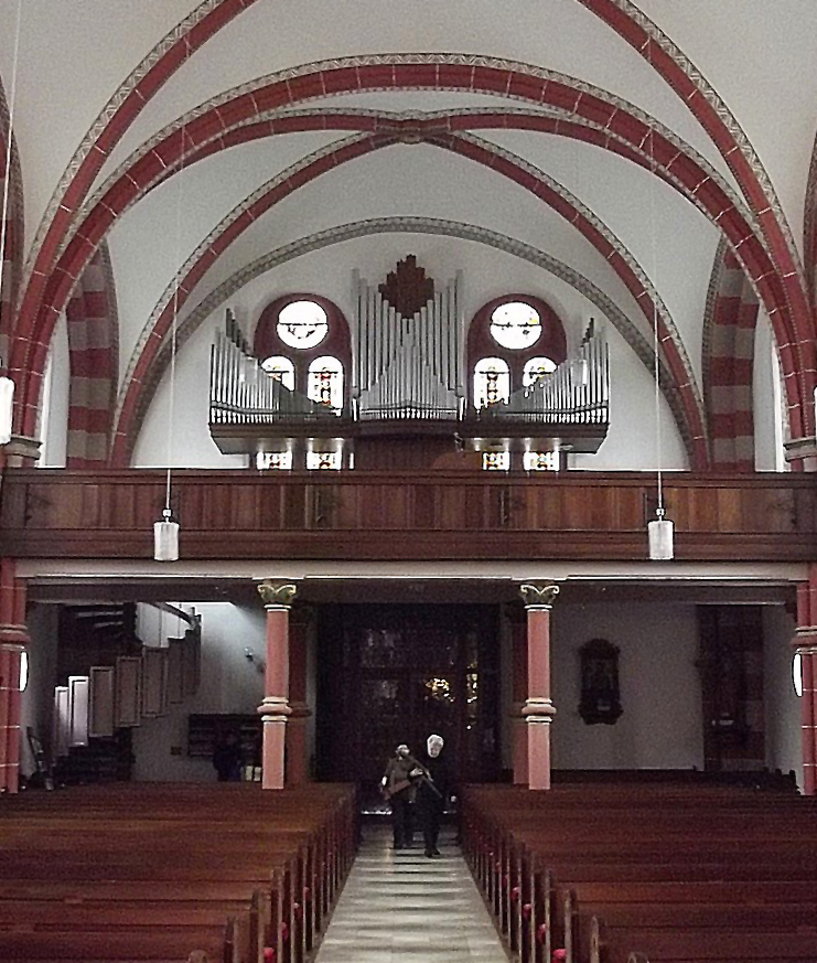 Interior of the roman catholic church in Wadrill, Saarland